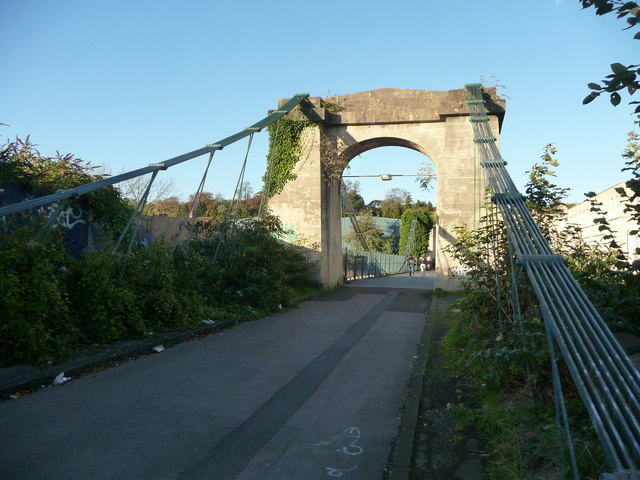 Bath : Victorian Bridge over the River Avon This Victorian bridge allows people to cross the River Avon